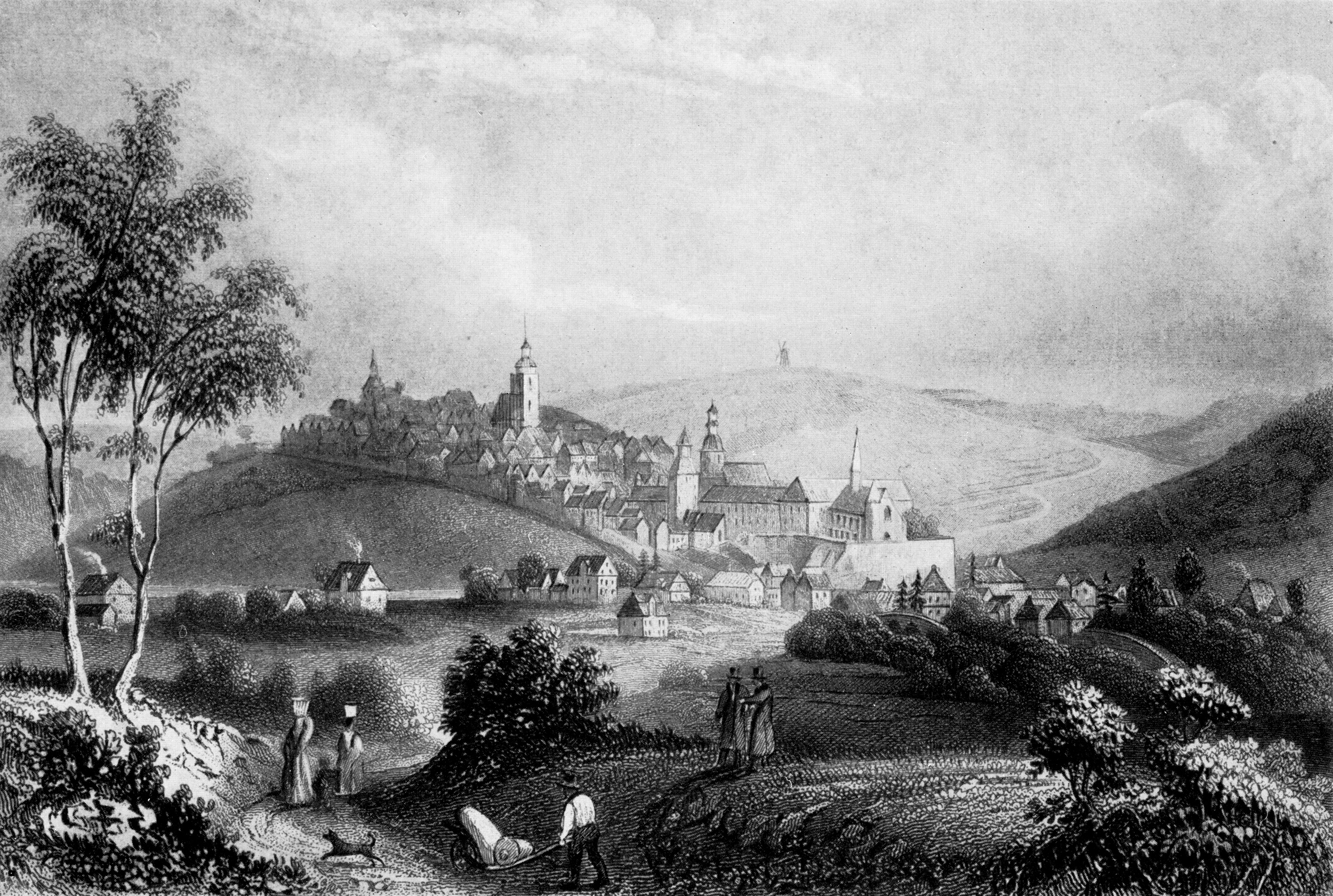 Steel engraving of the view on Siegen, Germany in 1842. Drawn by Carl Schlickum (* 1808, † 1869), engraved in steel by Albert Henry Payne in 1842.